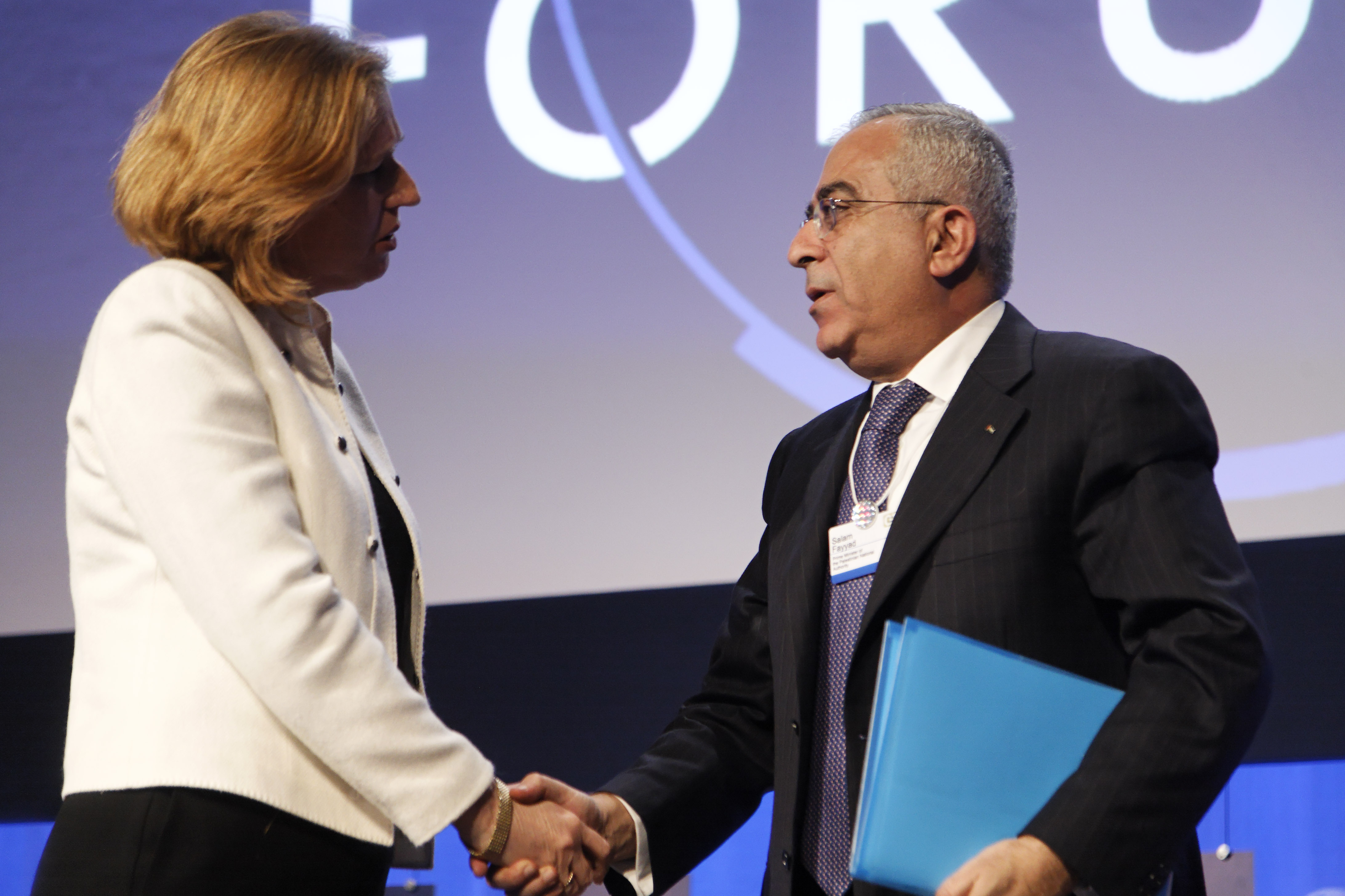 DAVOS/SWITZERLAND, 24JAN08 - Tzipi Livni, Vice-Prime Minister and Minister of Foreign Affairs of Israel and Salam Fayyad, Prime Minister of the Palestinian National Authority, captured during the session 'Middle East: After Annapolis, After Paris' at the Annual Meeting 2008 of the World Economic Forum in Davos, Switzerland, January 24, 2008. Copyright World Economic Forum ( Photo by Richard Kalvar